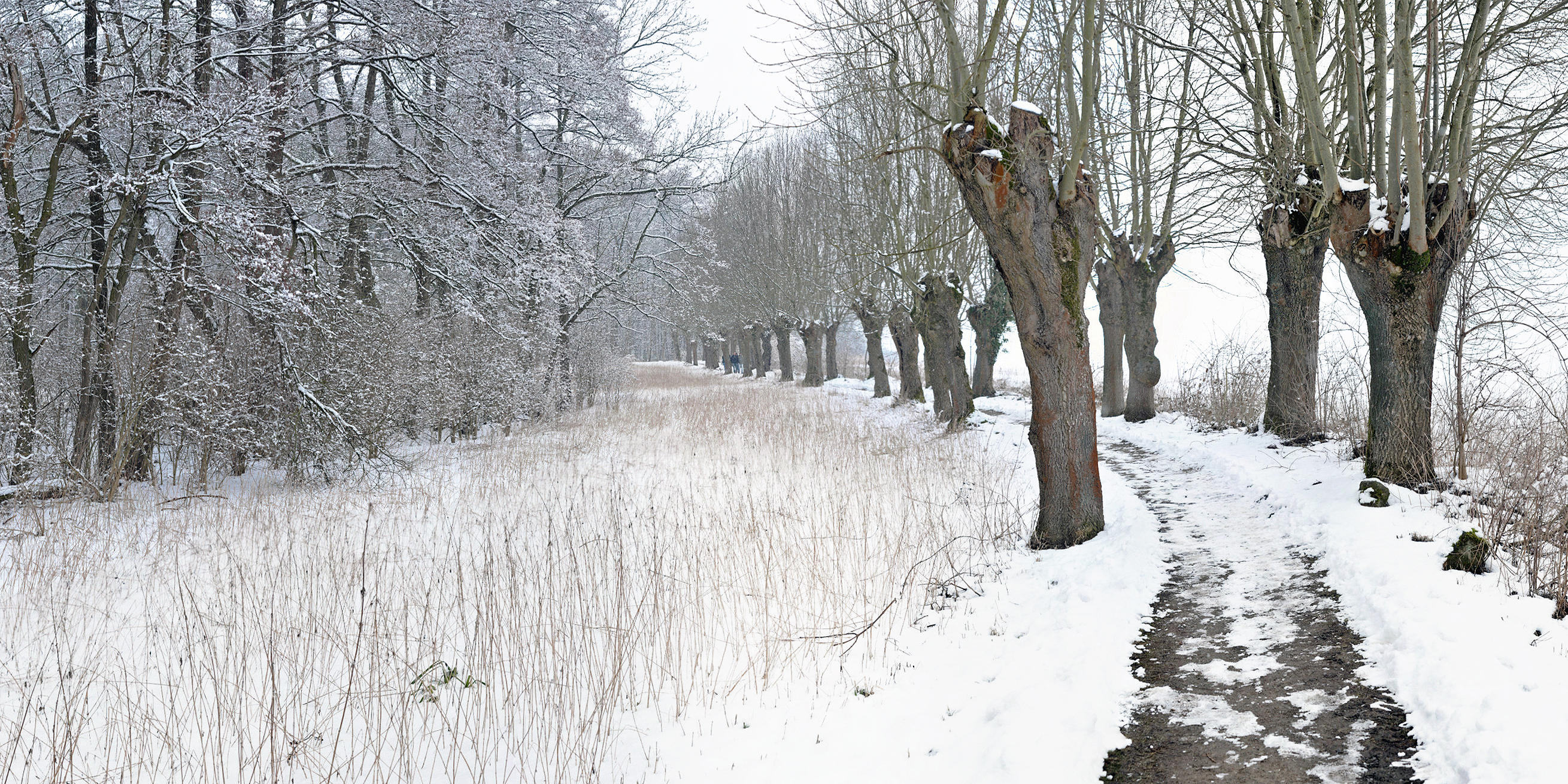 Foothpath with pollarded willows from the Convent Wülfinghausen to the "Café am Waldkater". Wülfinghausen belongs to the town Springe in Lower Saxony, Germany.